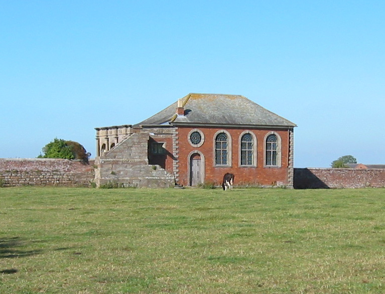 Woodhey Chapel, Faddiley, Cheshire, seen from the southwest